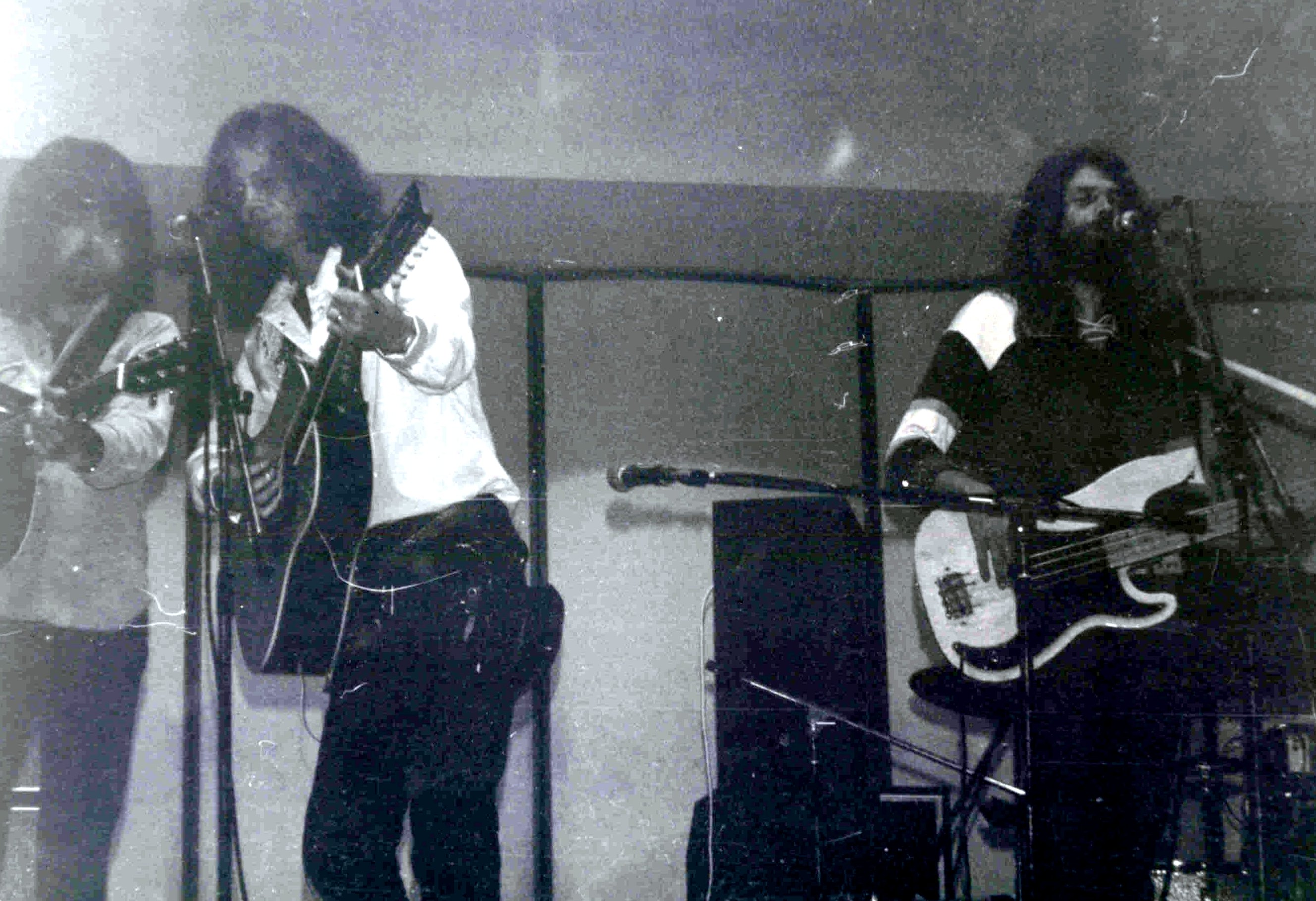 The Byrds Sept. 1972---At Wash. U.---Clarence White, Roger McGuinn, Skip Battin